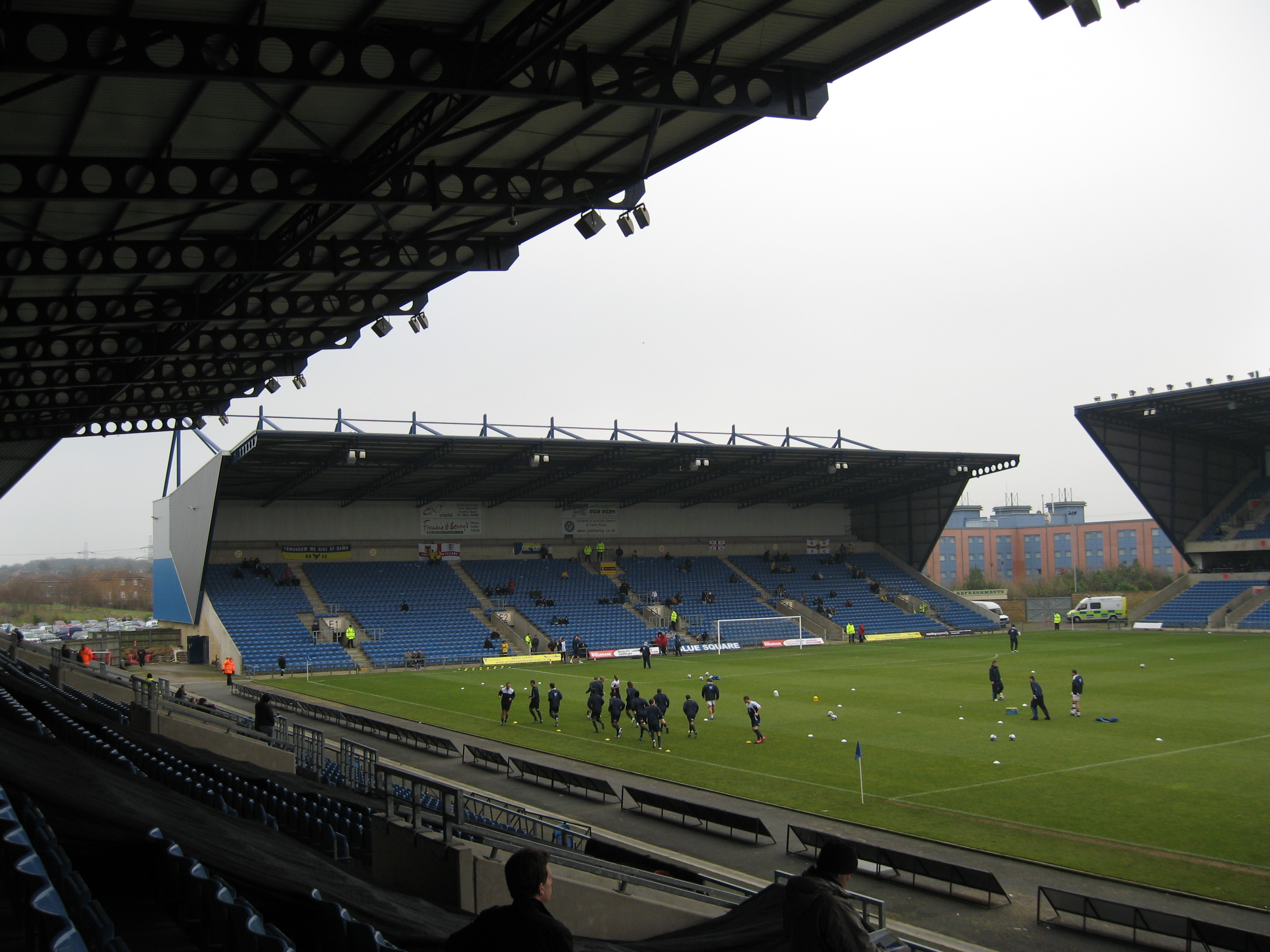 East stand, Kassam Stadium, Oxford United, near to Littlemore, Oxfordshire, Great Britain. The Kassam Stadium is the home of Oxford United Football Club, and is named after the ground's owner, and former chairman of the club, Firoz Kassam.